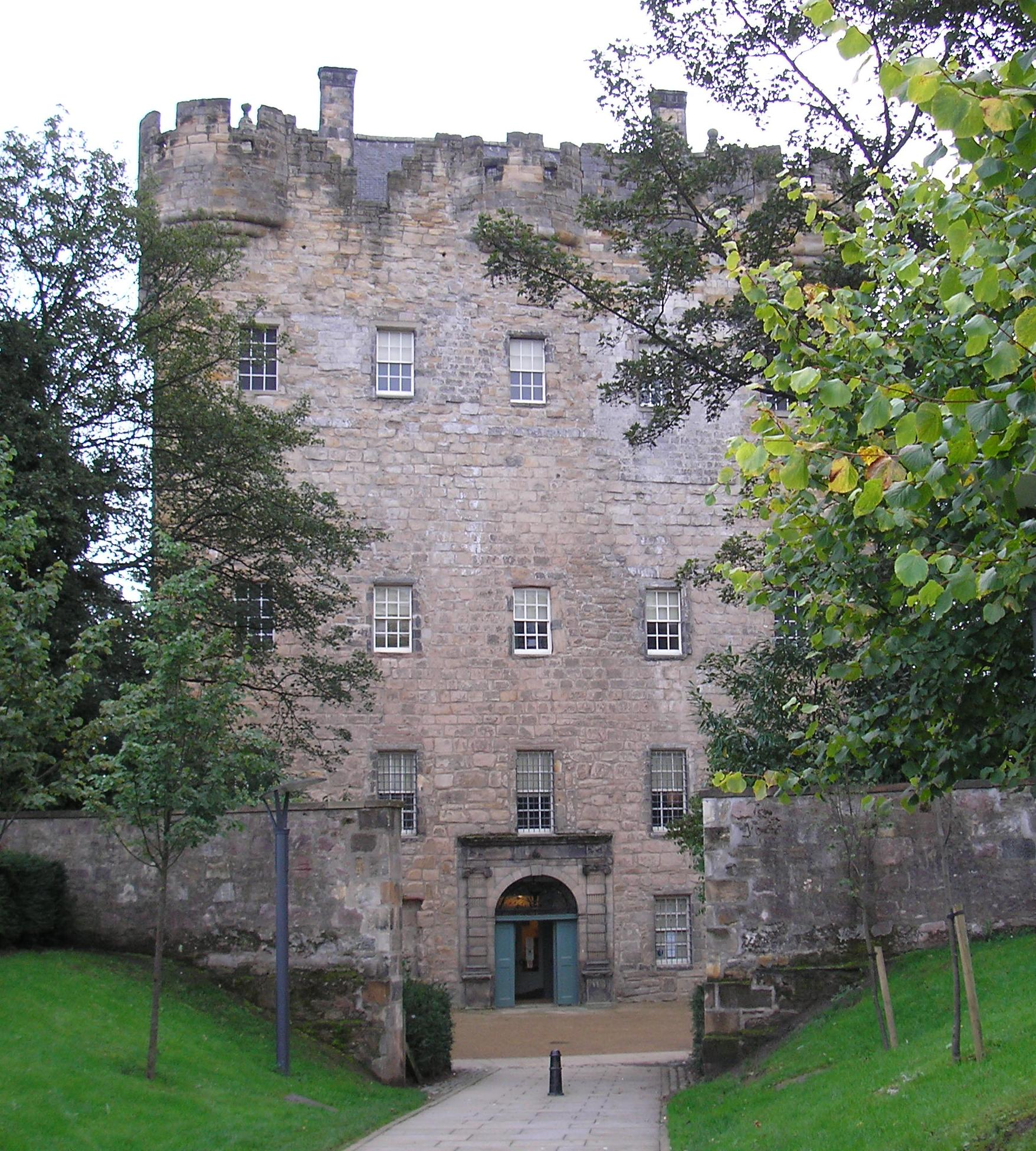 Photo of Alloa Tower in central Scotland. AllyD 16:25, 8 October 2006 (UTC)